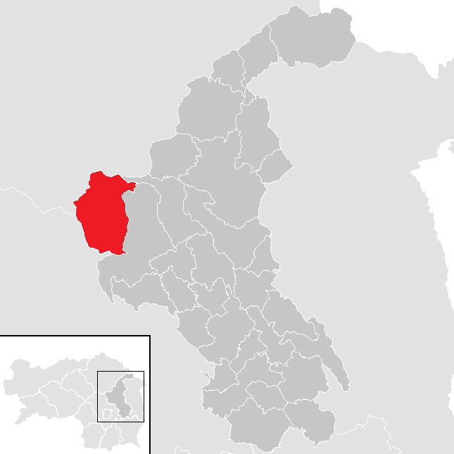 district Weiz